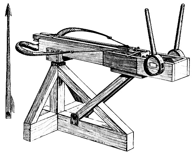 Oxybeles: ancient missile weapon launching bolts and being a larger type of crossbow, used by the Greeks starting in 375 BC, as a modified and enlarged gastraphetes